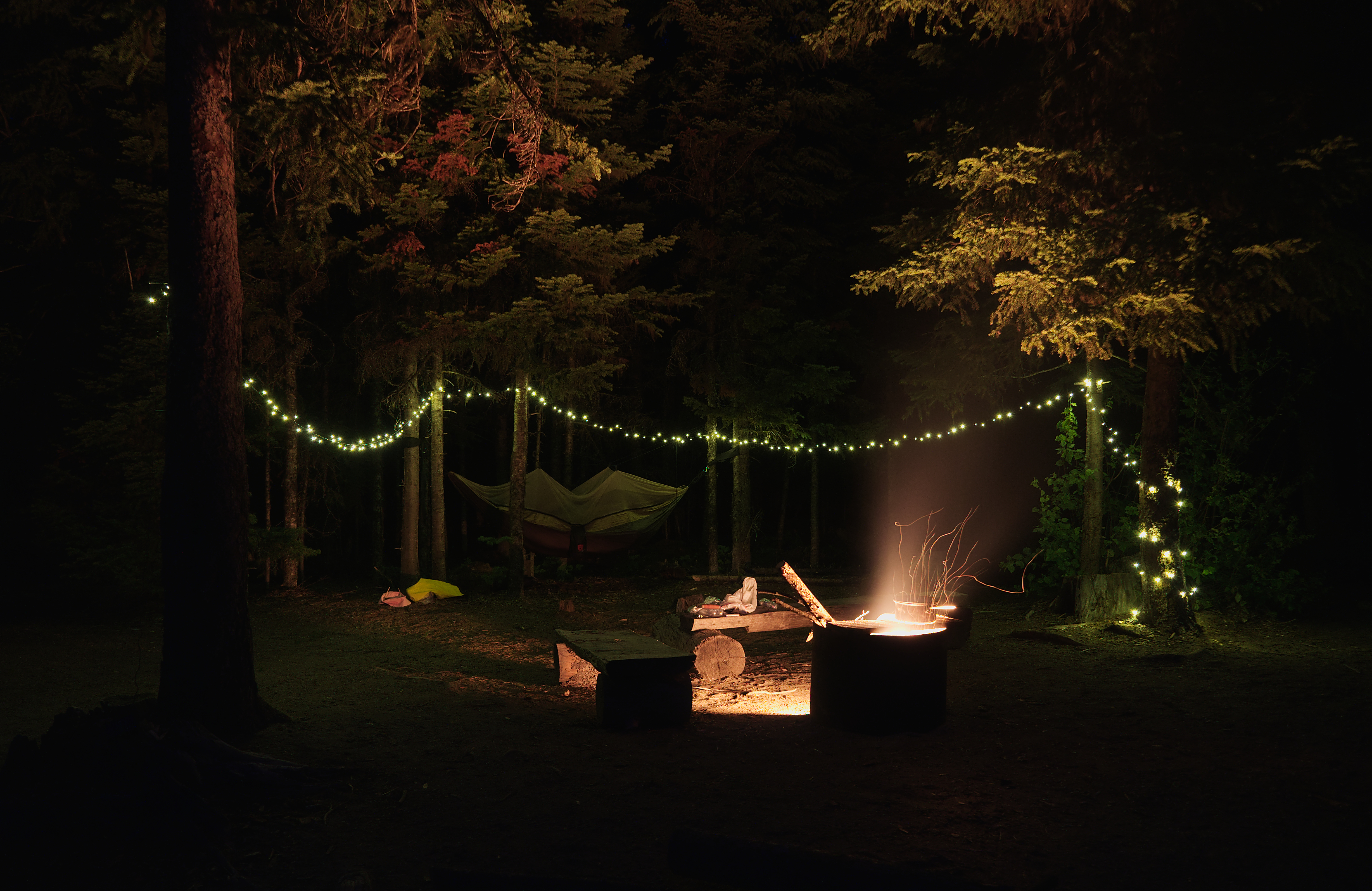 Campsite 38 at night in Bowron Lake Provincial Park Campfire with hammock and solar lights in the background This photo was taken in a protected area in Canada, Wikidata item Bowron Lake Provincial Park (Q4951406)